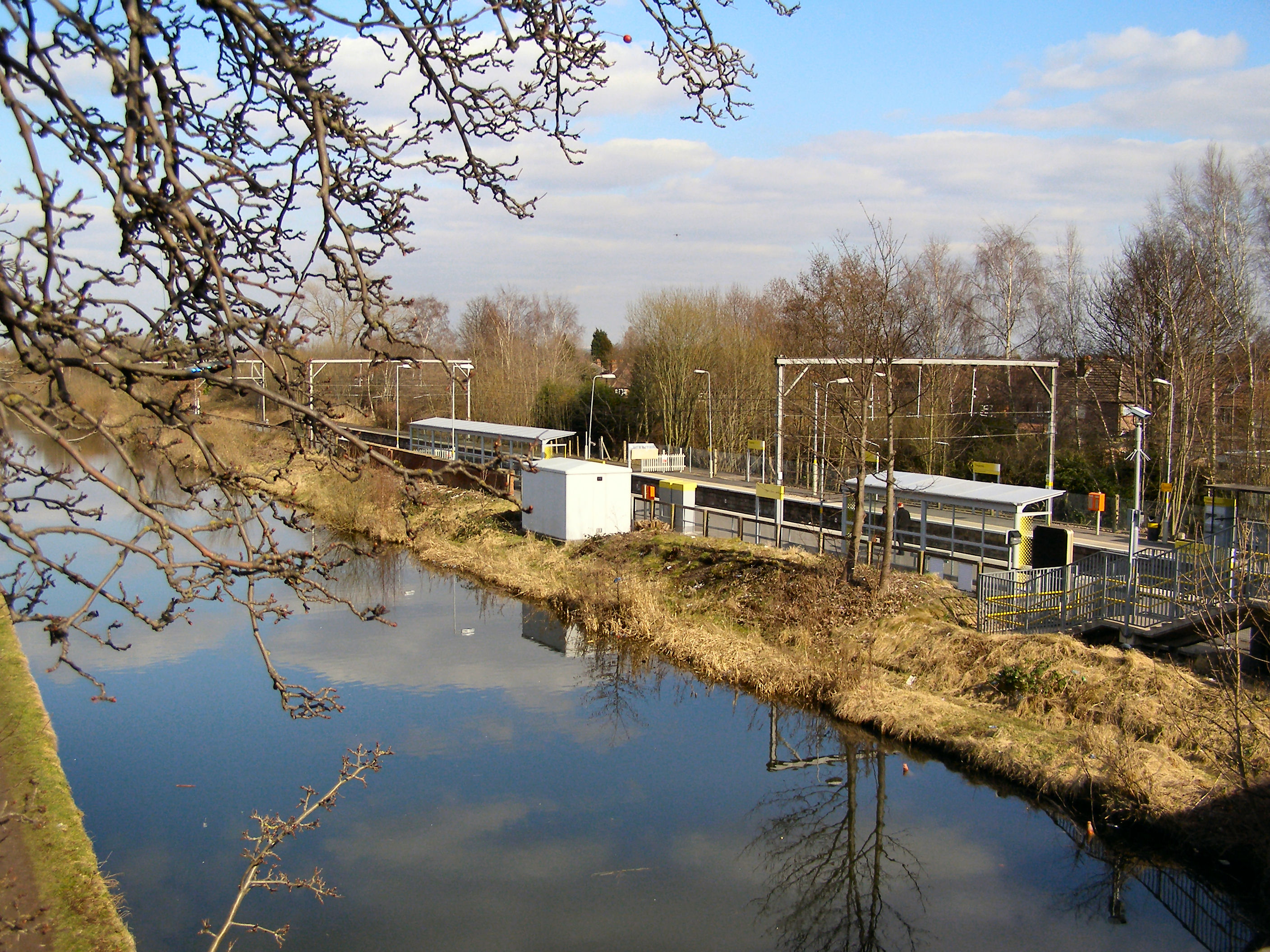 Bridgewater Canal and Timperley Station. Viewed from Park Road Bridge.